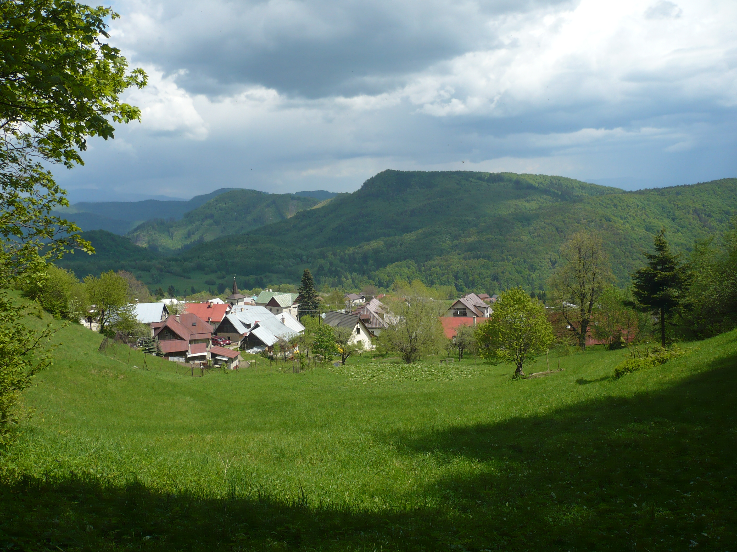 kordiky